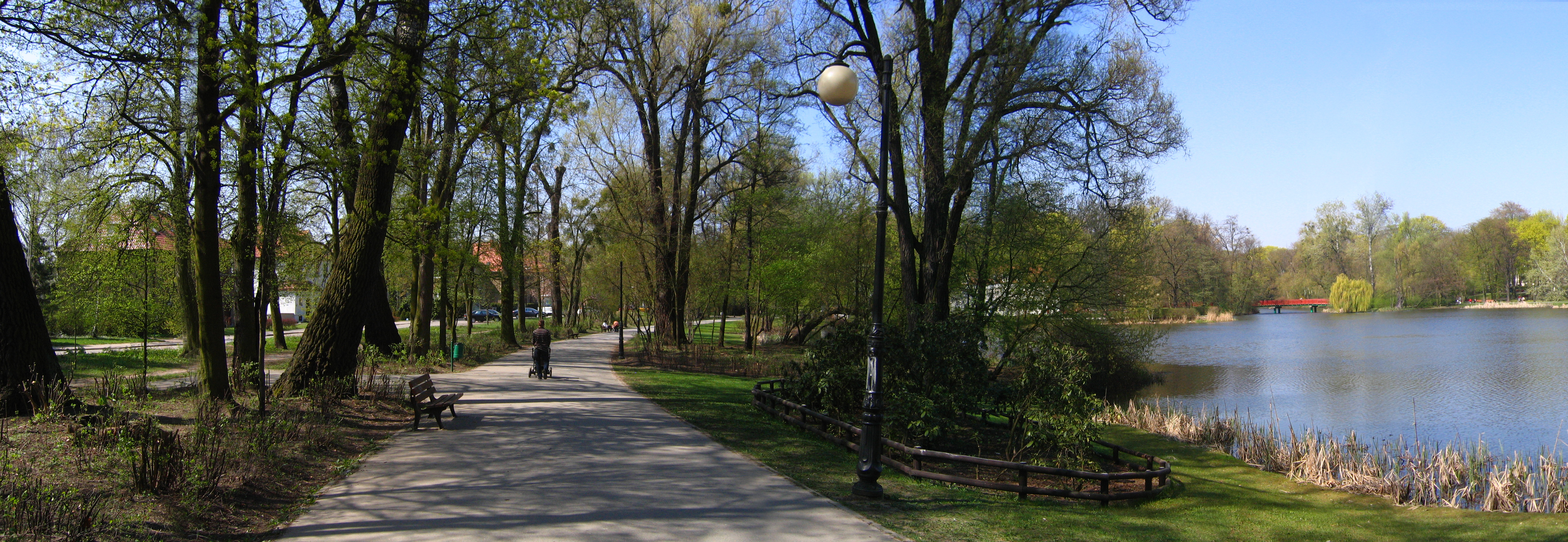 Solacki Park, Poznan, Poland